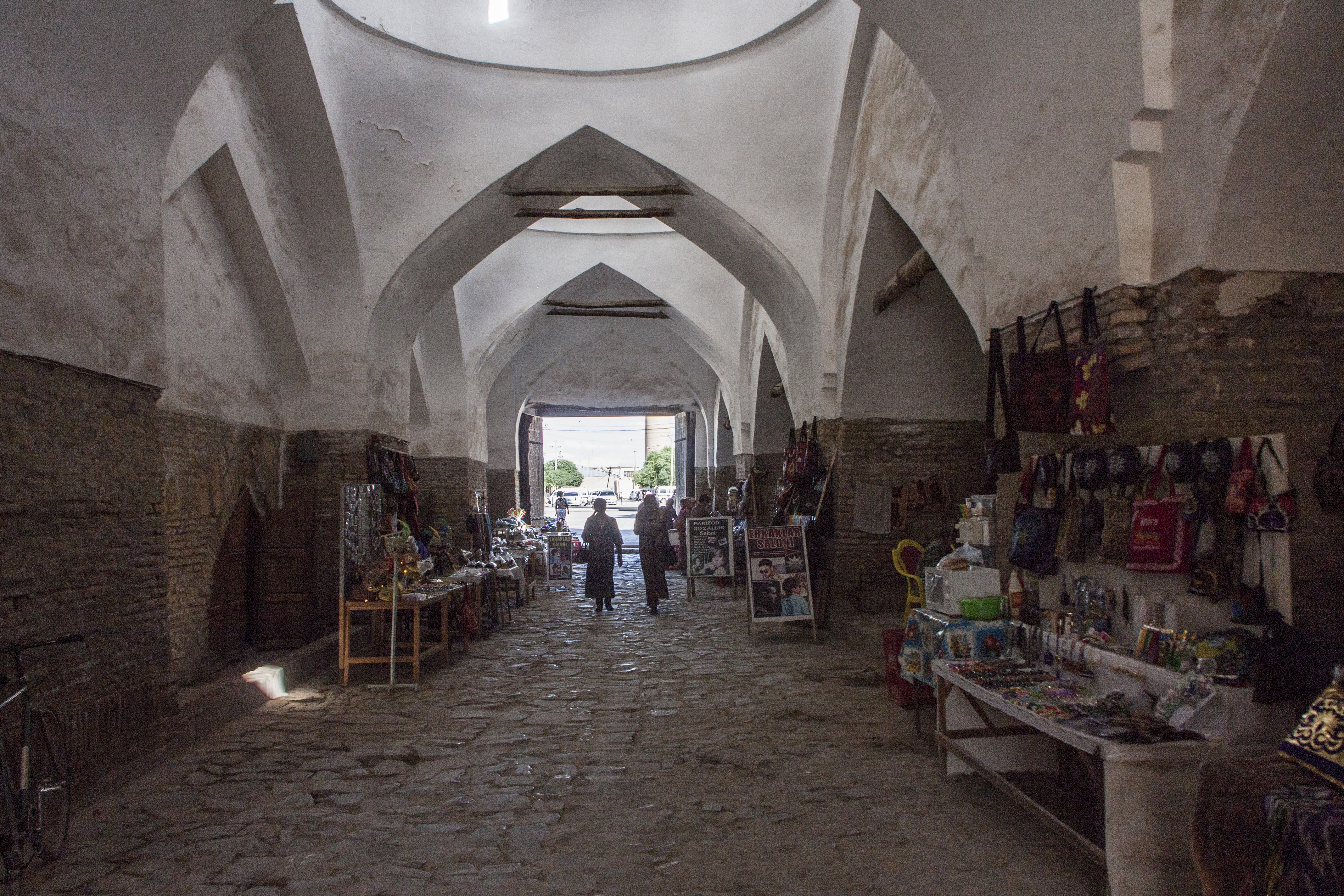 Palvan Darvoza (inside)